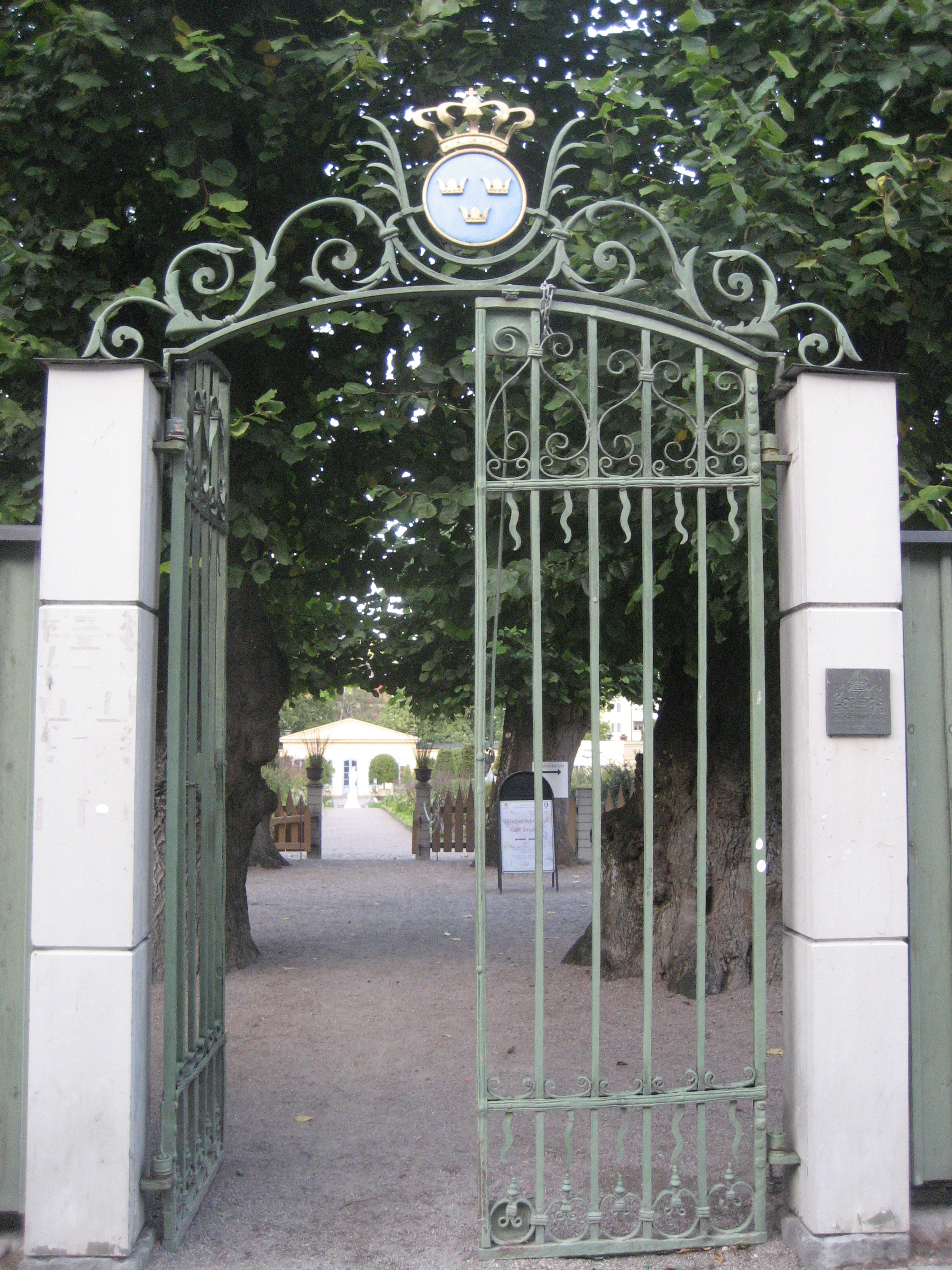 Linnaean Garden, Uppsala (Sweden)